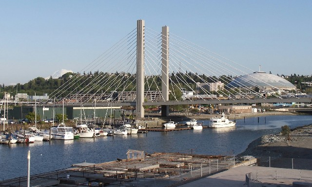 SR 509 cable stay bridge in Tacoma, Washington.